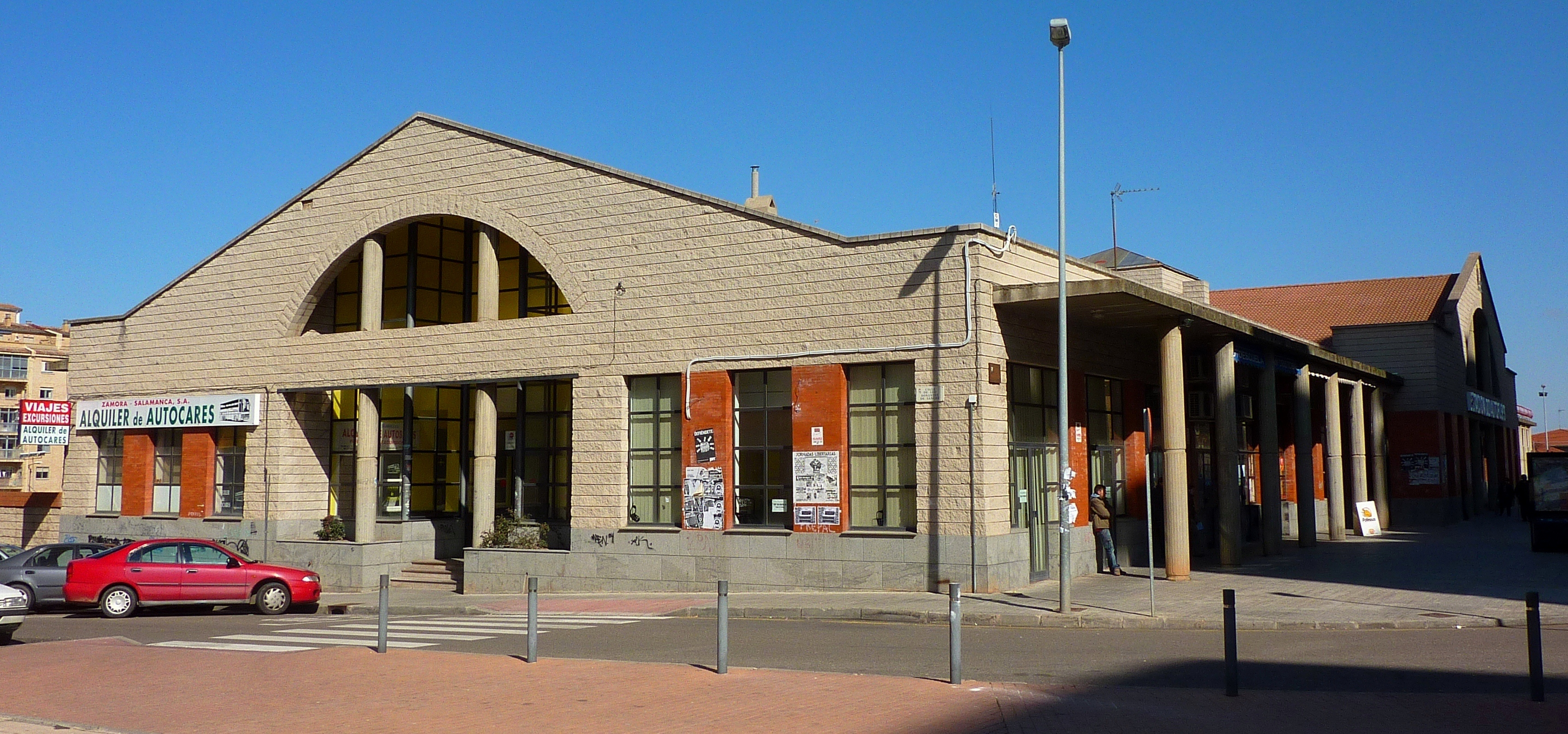 Zamora coach station, Spain.